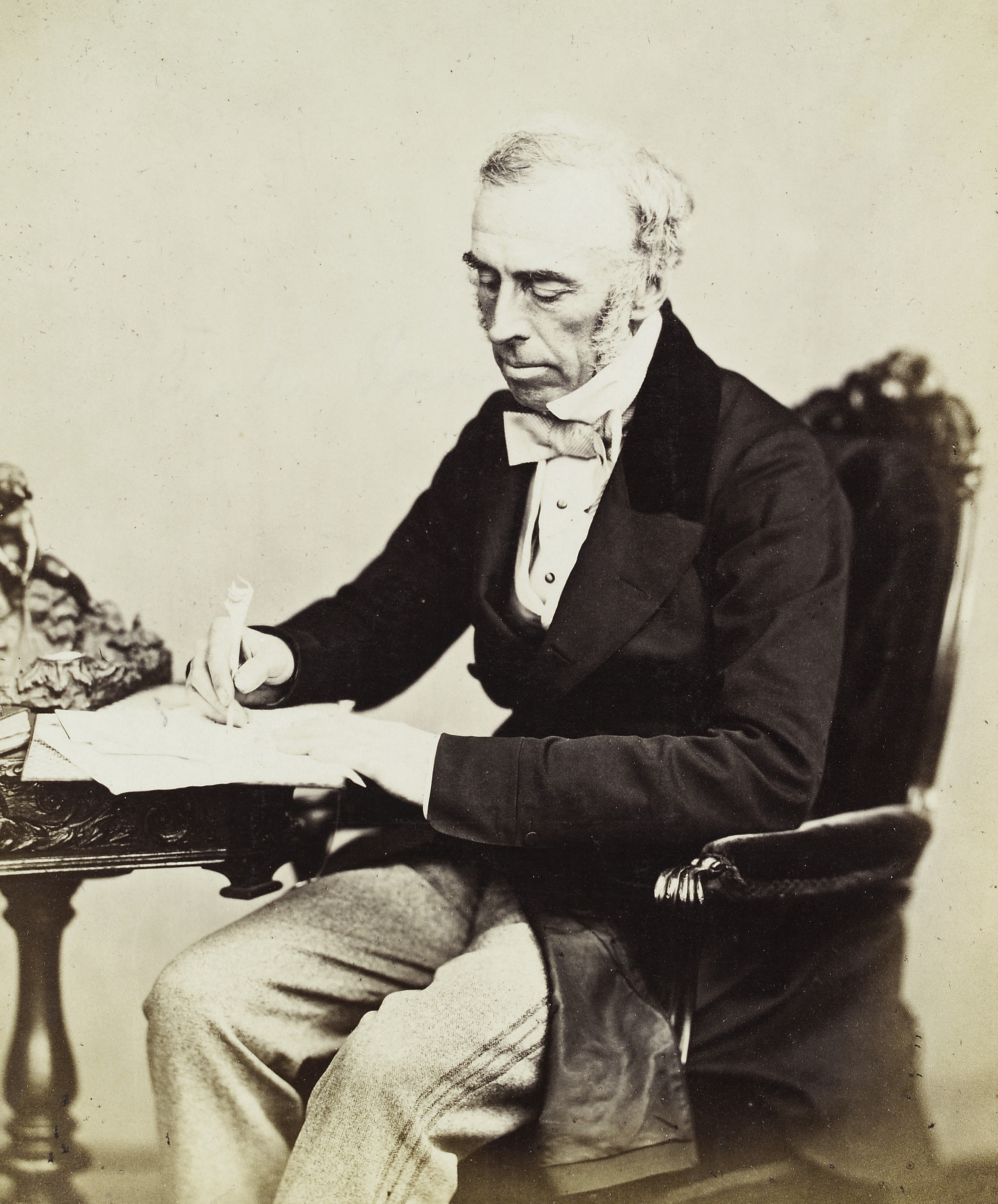 Sir Charles Locock. Bart. First Physician Accoucheur to the Queen, a member of the St. Albans Medical Club